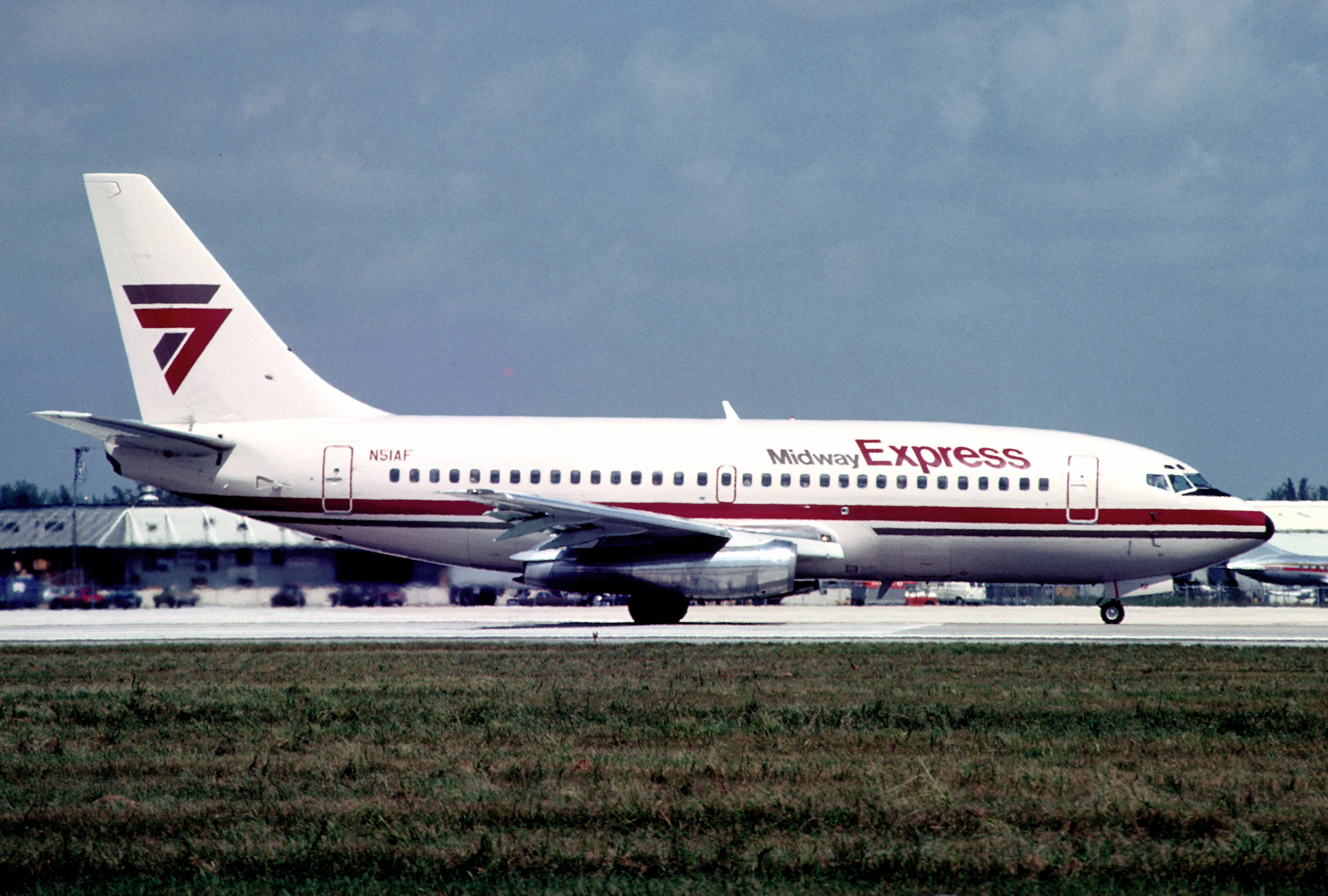 Midway Express Boeing 737-2T4; N51AF@MIA, October 1984/ CKF